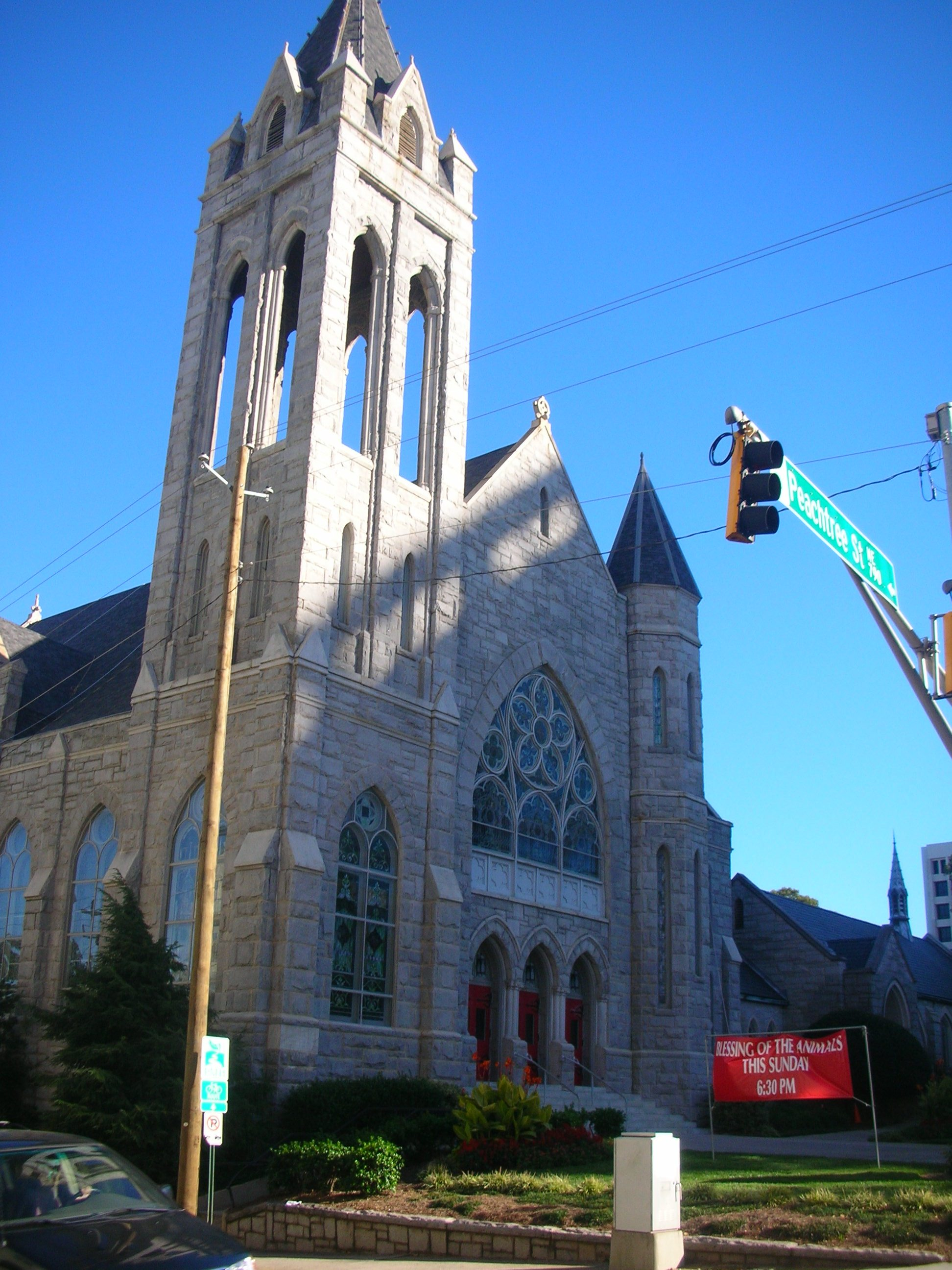 Category:Images of Atlanta, Georgia